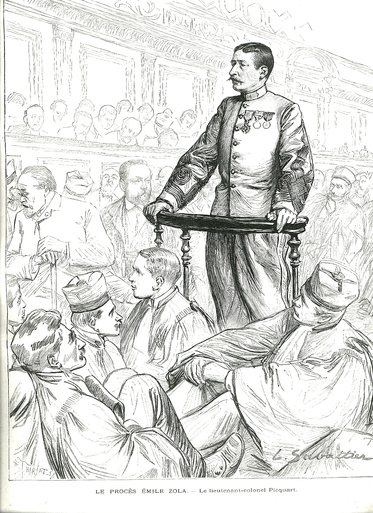 Lieutenant colonel Marie-Georges Picquart, testifying at the Zola trial in Paris, 1898. Engraving in l'Illustration.